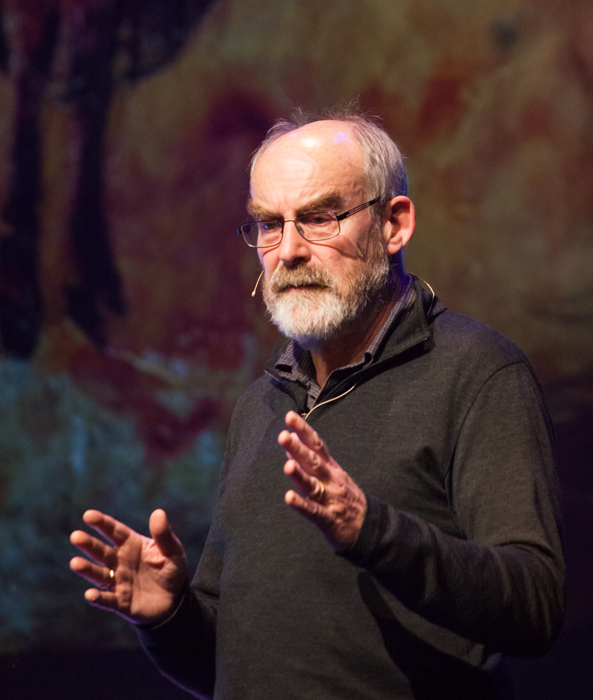 David Snowden talking about dealing with complex systems at UX Brighton in 2016